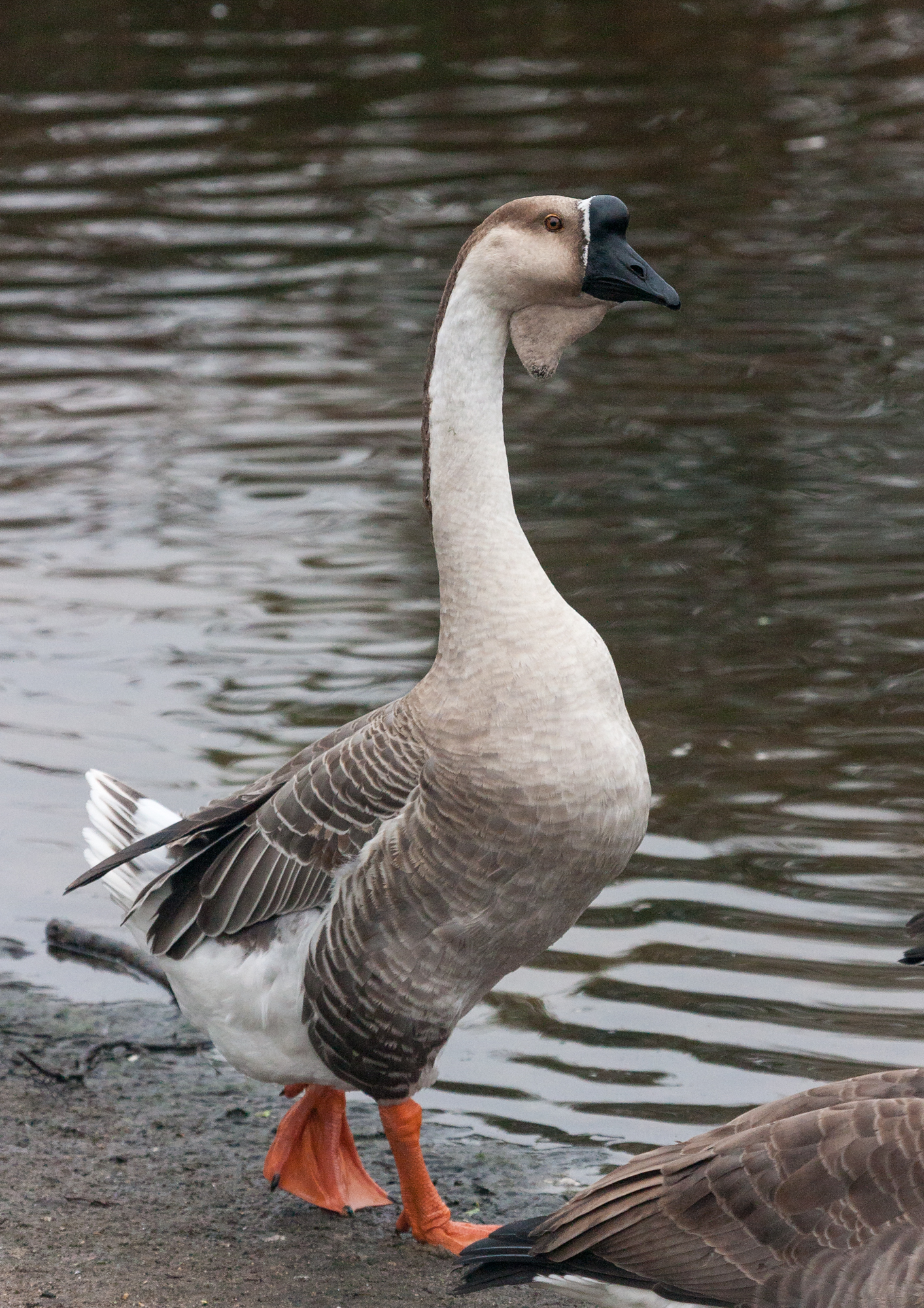 Brown African Goose, unconfined. Seen with other wild waterfowl on the coast near Elkhorn Slough in California.